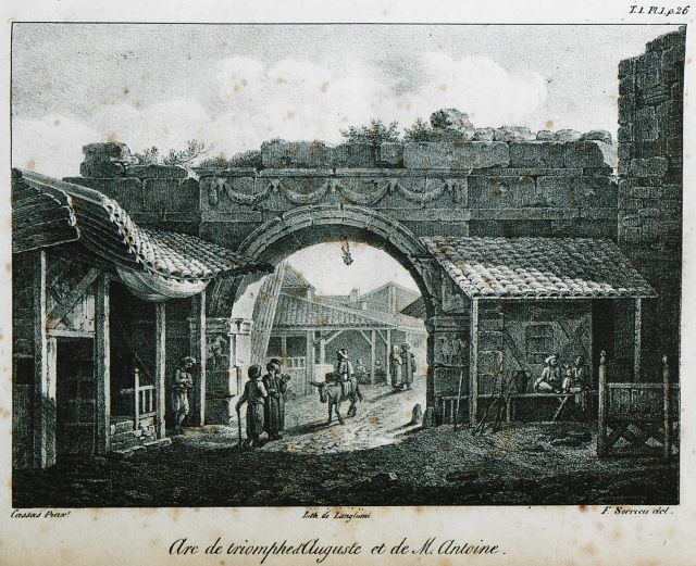 Vardar Kapu - CousinÉry Esprit Marie - 1831